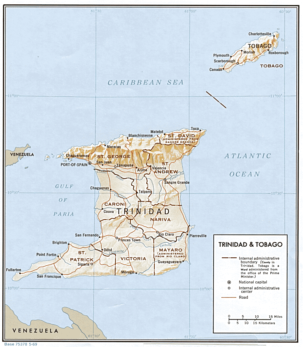 general map of Trinidad and Tobago, with old county boundaries